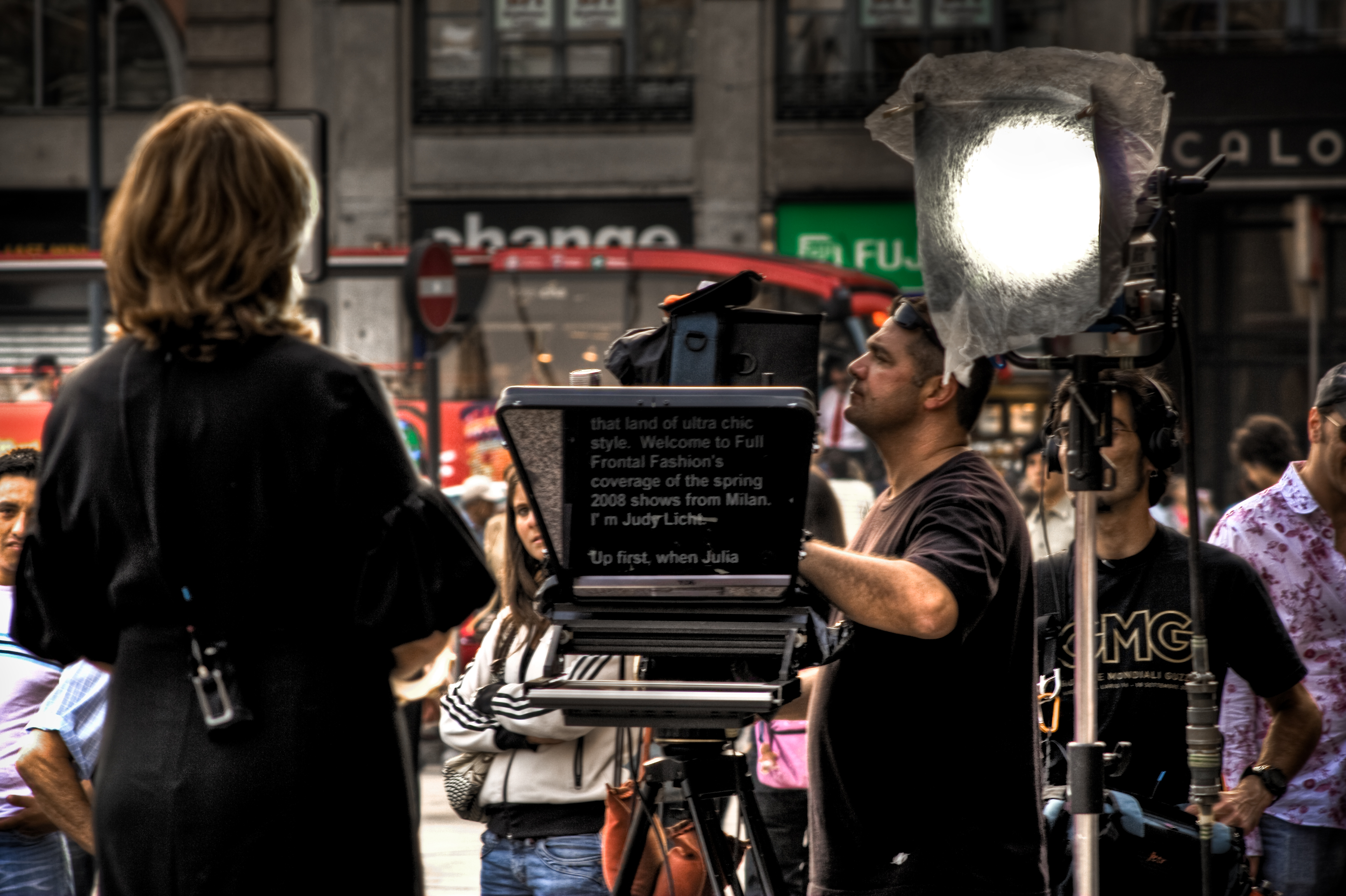 Judy Licht working with Teleprompter while presenting Full Frontal Fashion on Piazza Duomo, Milan, Italy.